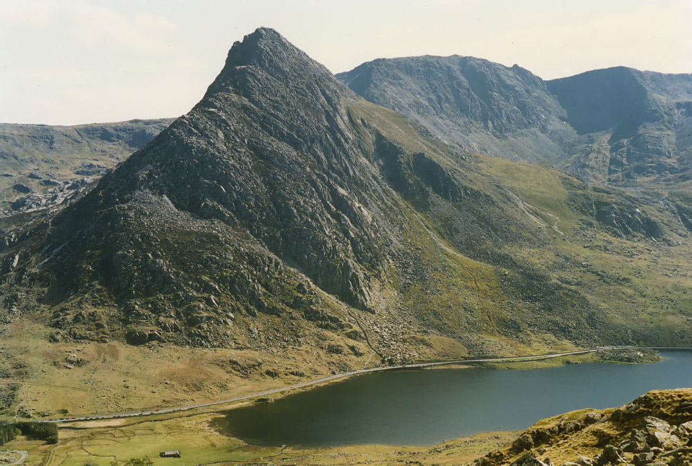 The north side of Tryfan Taken from the entrance to Cwm Lloer, looking down on Llyn Ogwen, with Tryfan beyond and Glyder Fach in the distance.